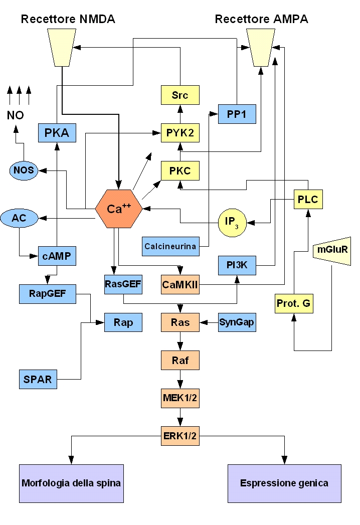 Illustrative diagram of the signal transduction due to LTP